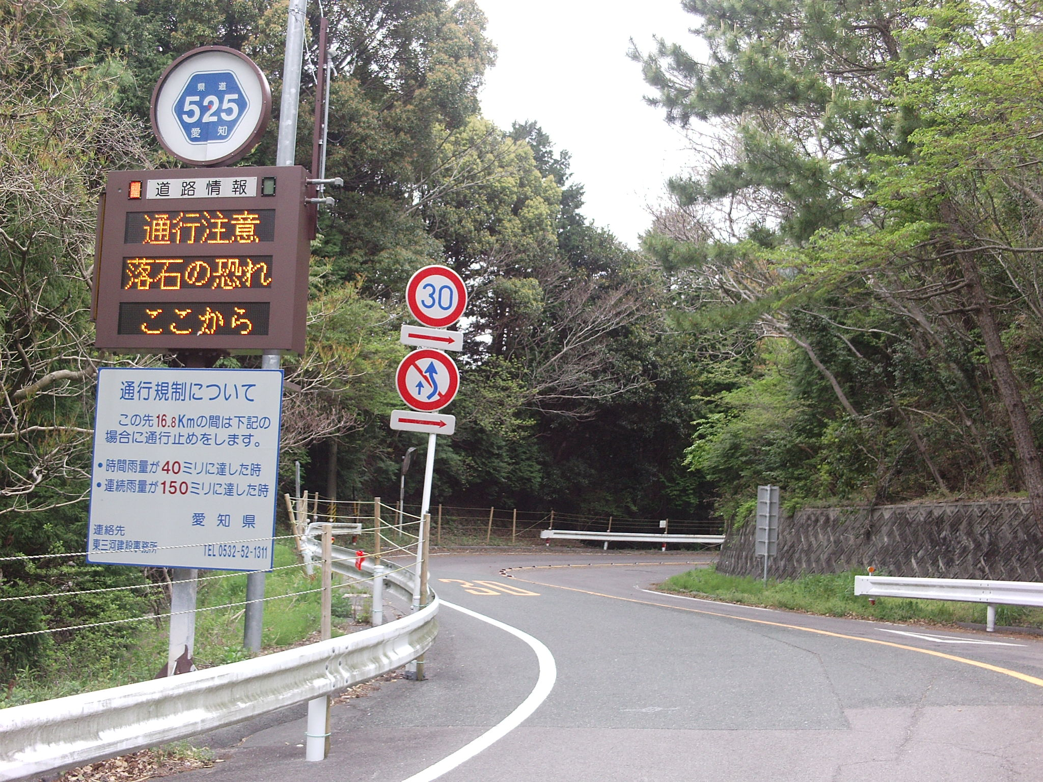 Aichi prefectural road No.525 in Toyookacho, Gamagori, Aichi.